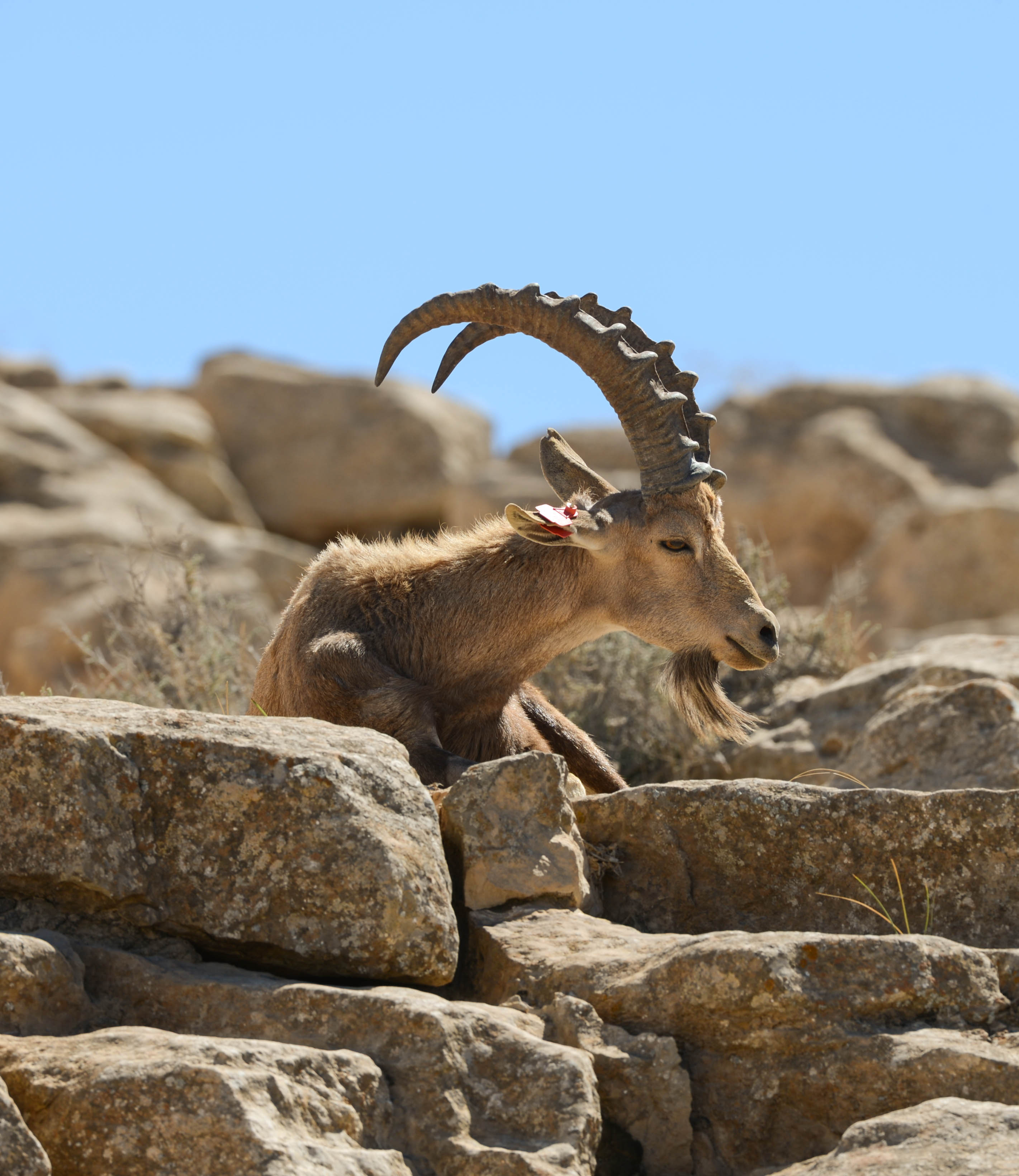 Nubian ibex (Capra nubiana) near the Makhtesh Ramon.